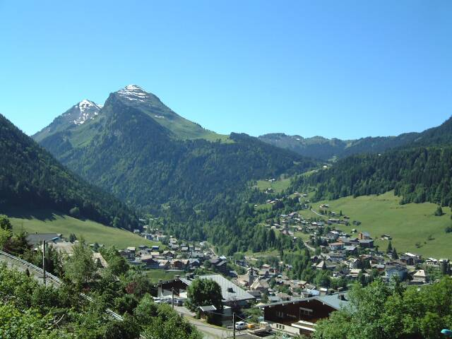 A view of Morzine with the Pointe de Nyon in the background